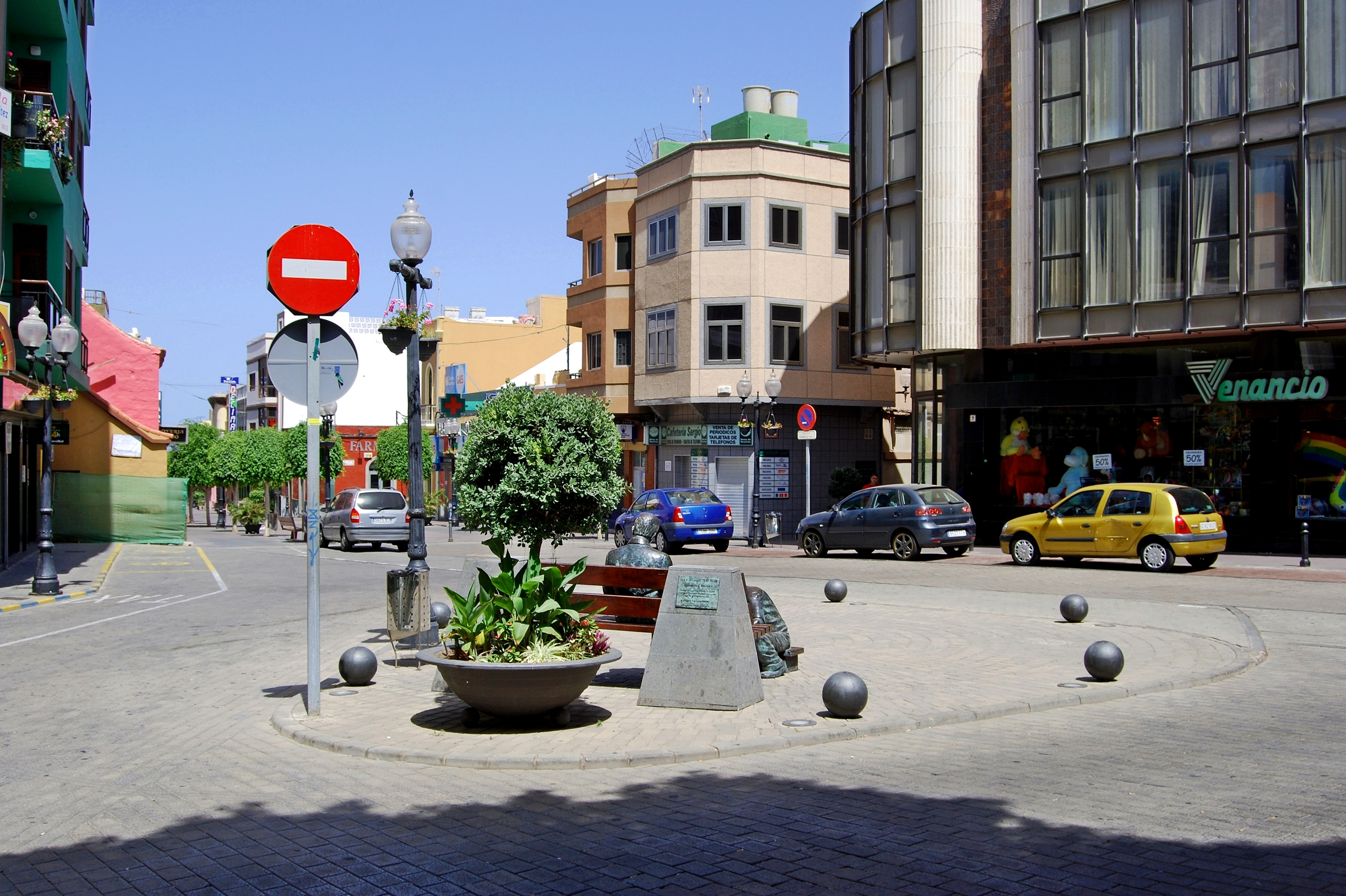 A square in the city of Telde, Gran Canaria.